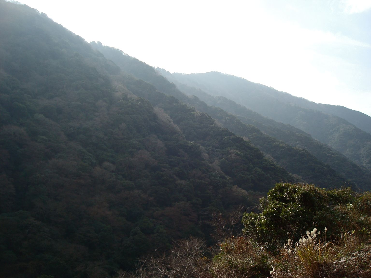 Aso Kitamuki-dani old growth forest at Ozu town, Kumamoto, Japan. It is preserved as one of the national monuments of Japan.